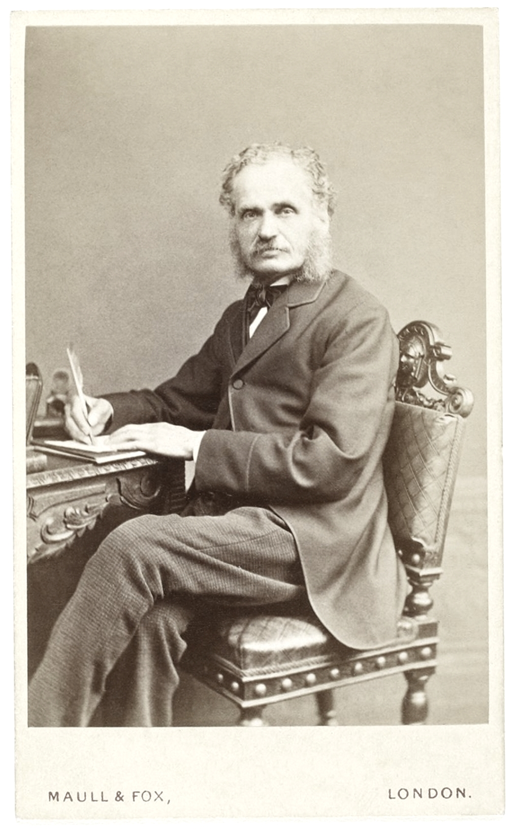 Henry Walter Bates (1825-1892), british naturalist and explorer.